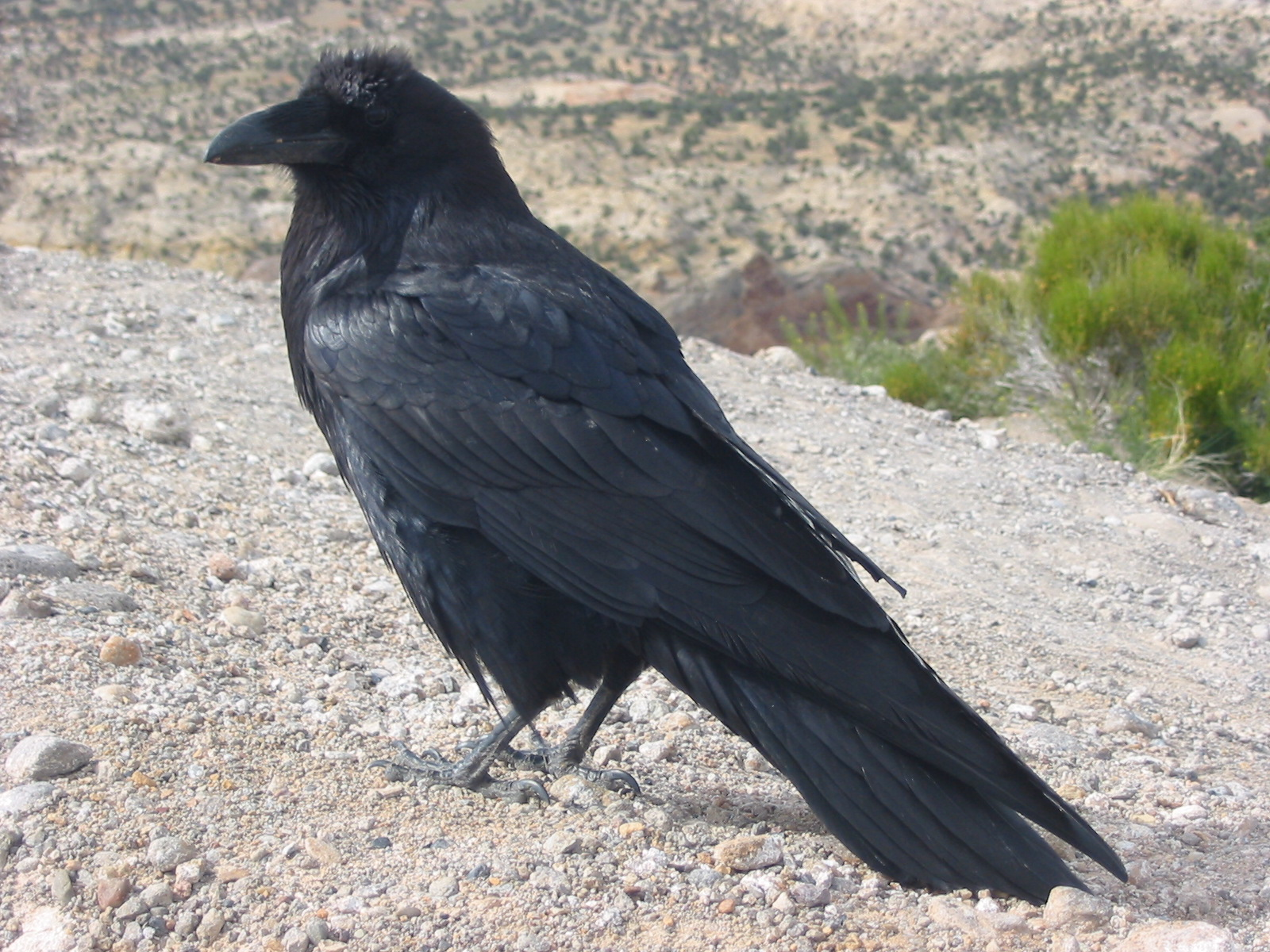 Corvus_corax_along_road, picture taken near or in Capitol Reef National Park, Utah, USA